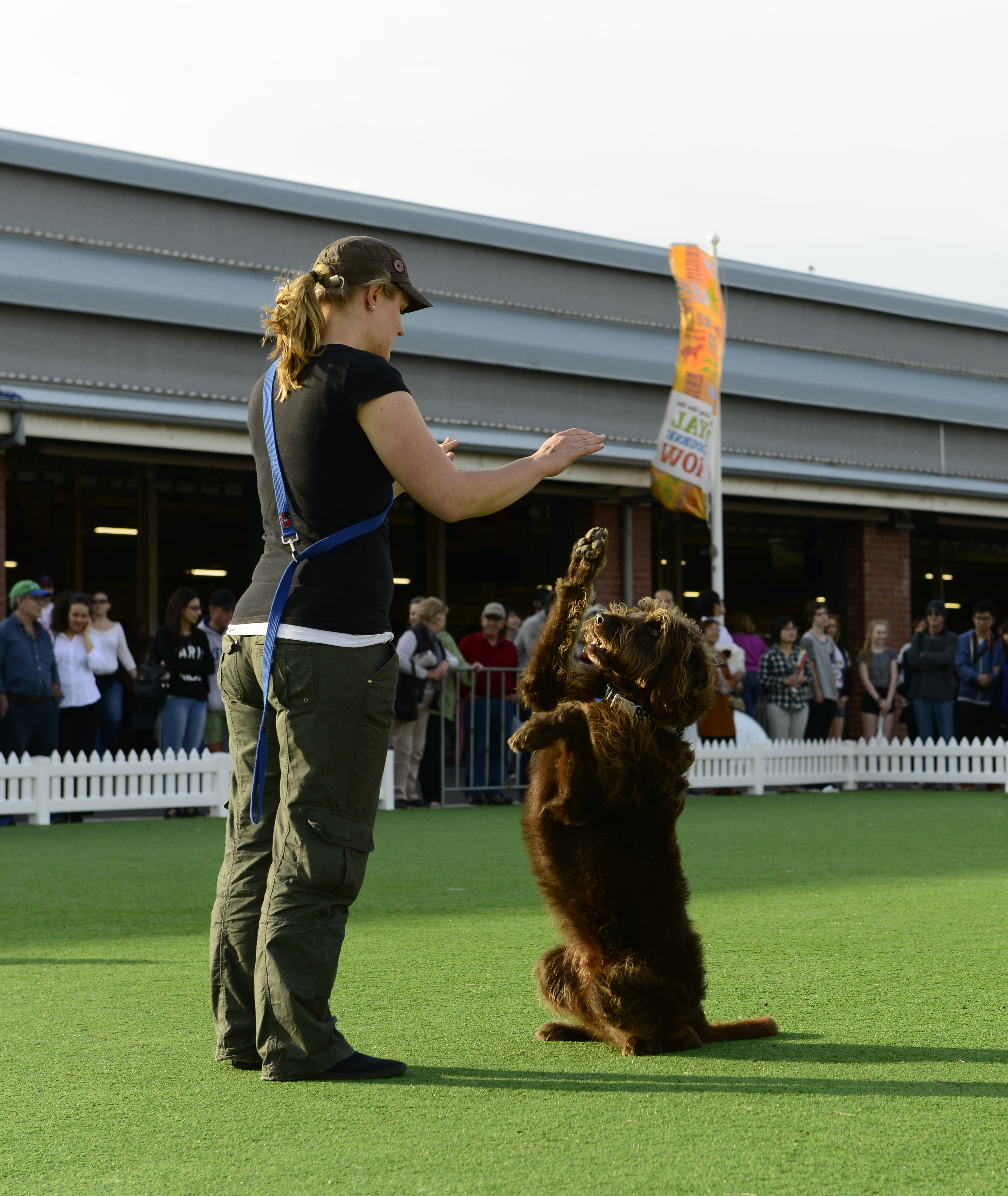 Labradoodle named "Snickers" and handler Heidi.